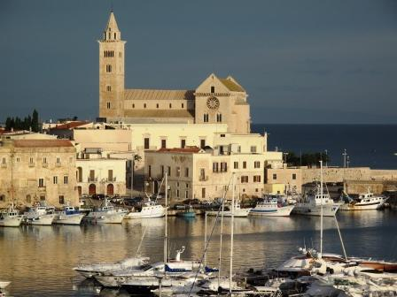 Trani Port, Trani.